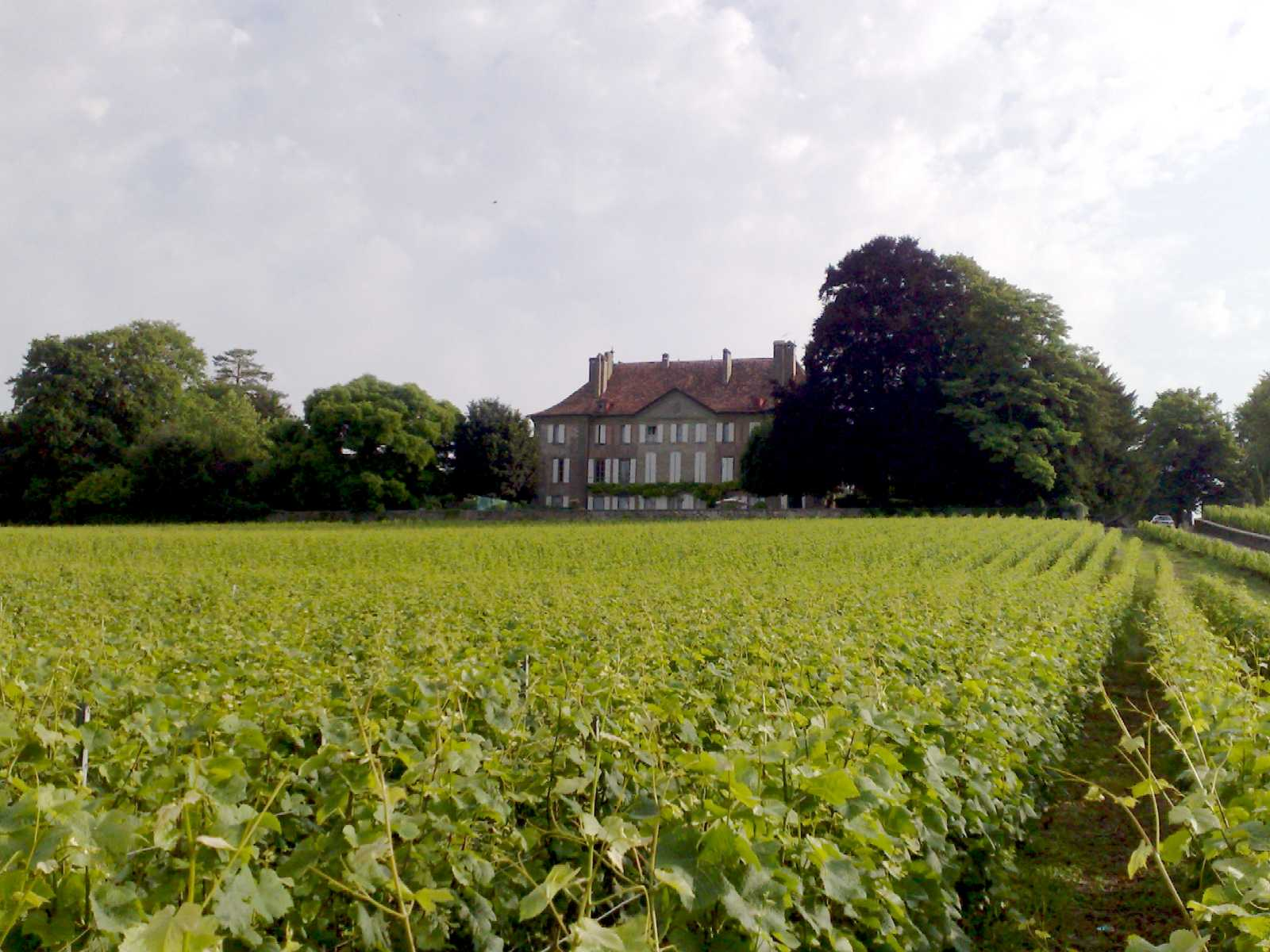 Castle of Saint-Saphorin-sur-Morges, Switzerland.